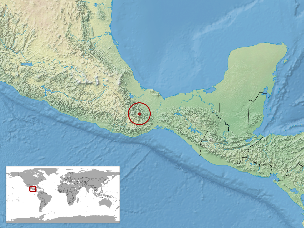 geographic distribution of Conopsis amphisticha (Native: Mexico)